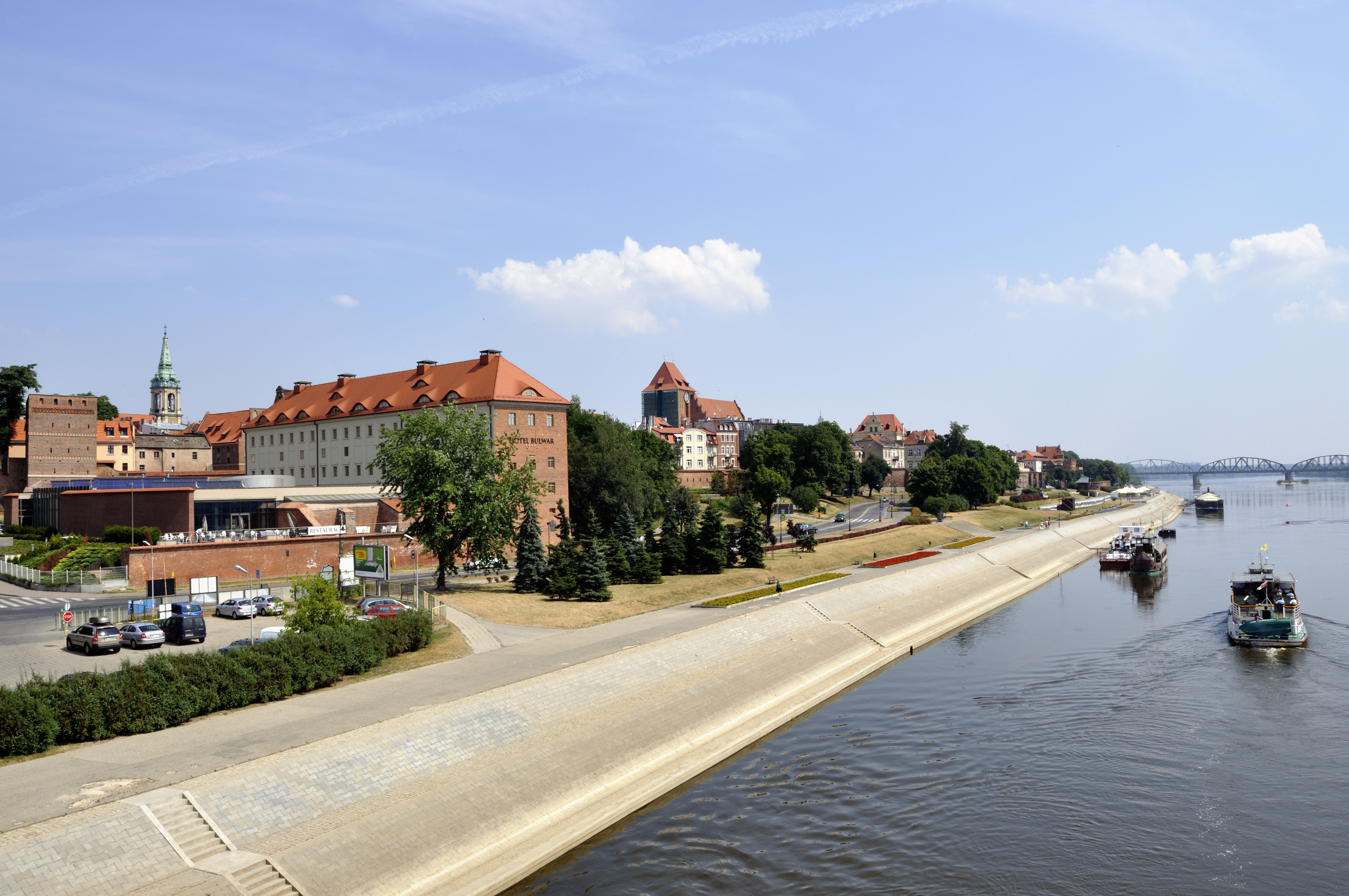 Picture taken in Toruń after Wikimania 2010 conference.